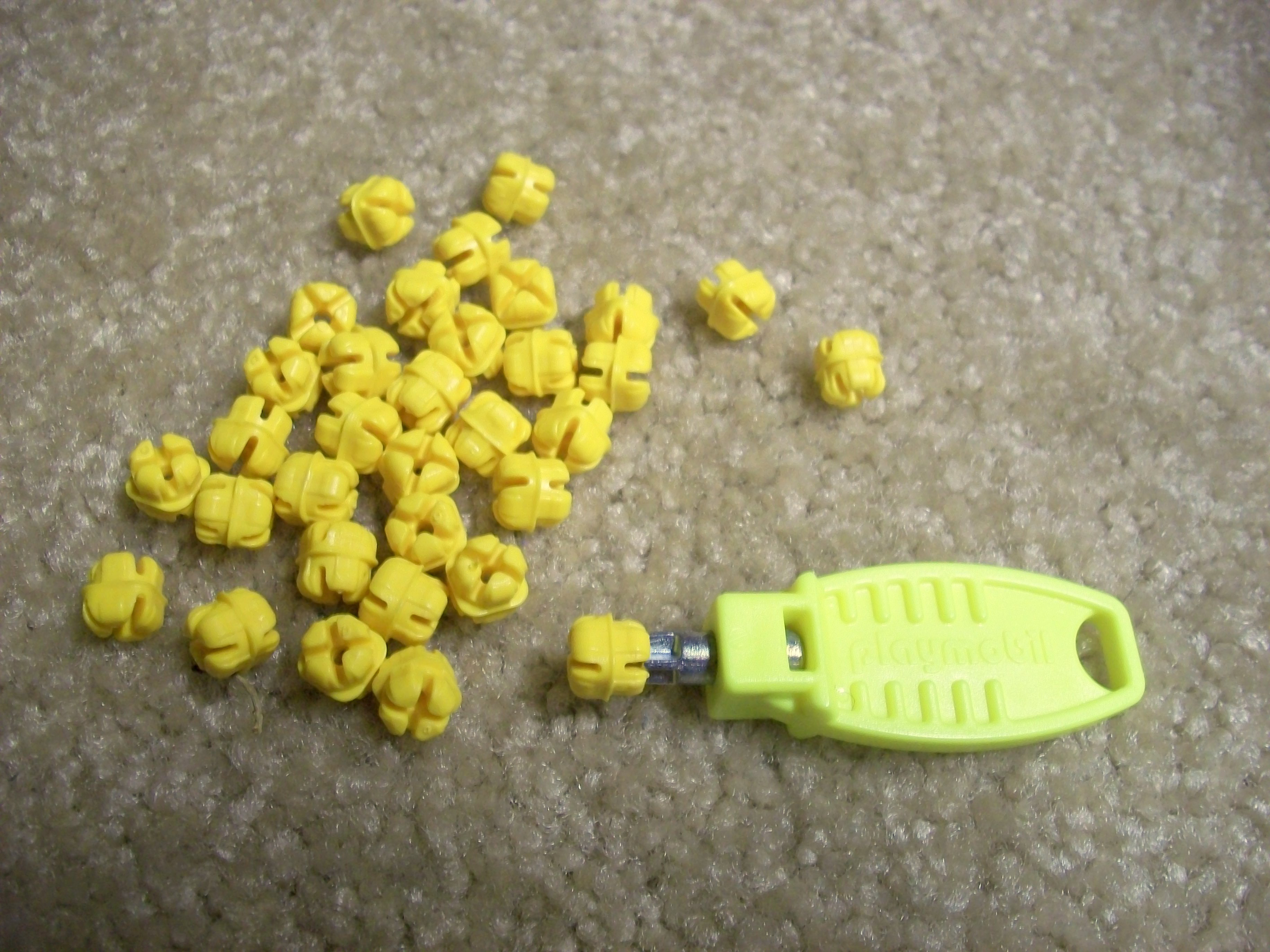 A pile of connectors and a special tool from the System-X construction method used in Playmobil toys.